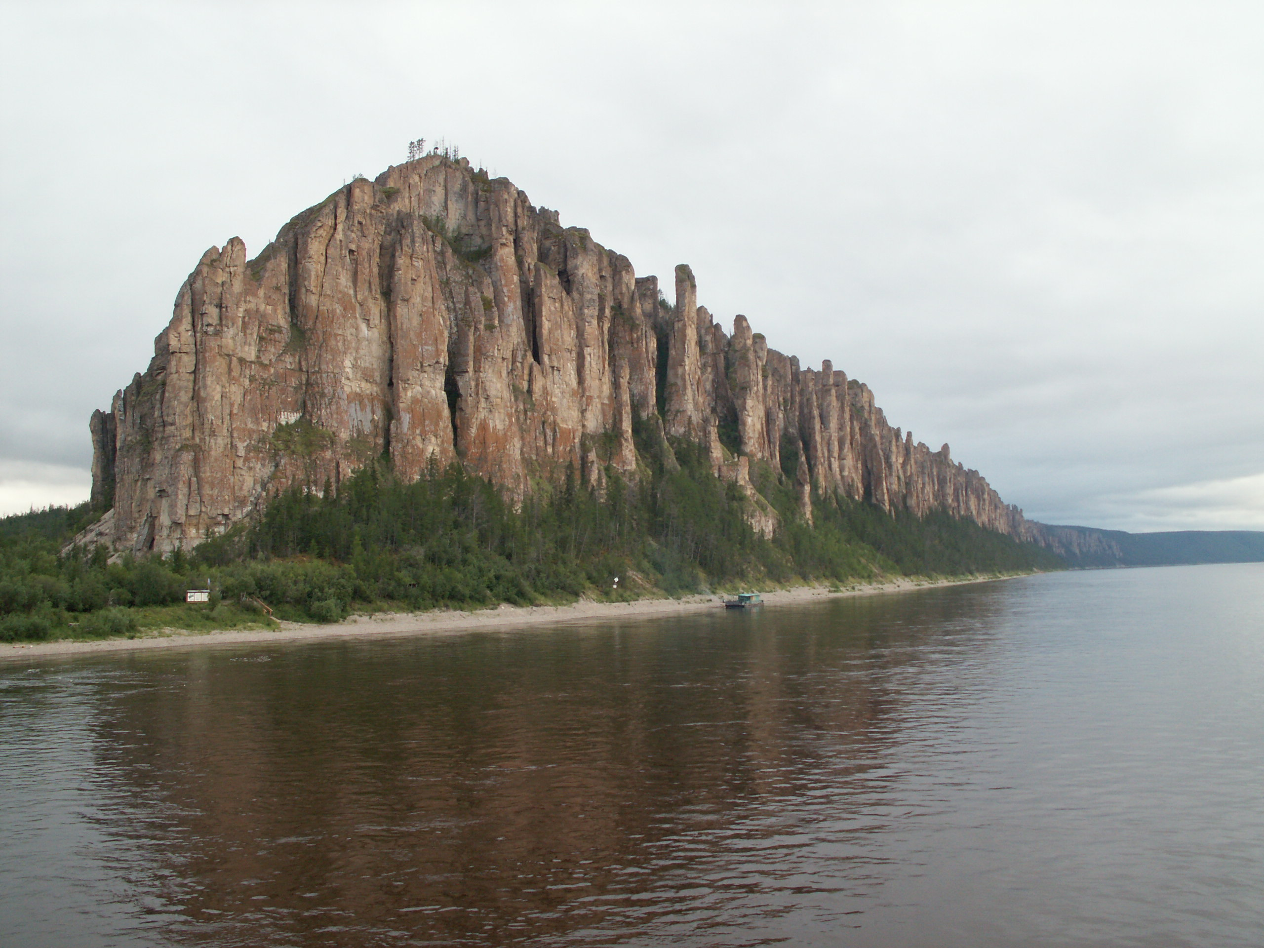 Lena Pillars